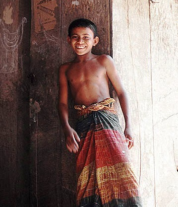 A Bengal boy wearing a lungi, a traditional dress.